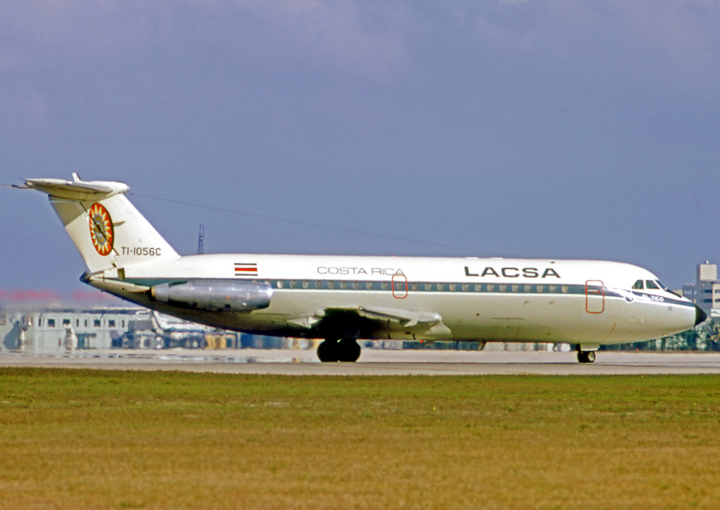 LACSA BAC 1-11 409 TI-1056C at Miami International Airport in 1971